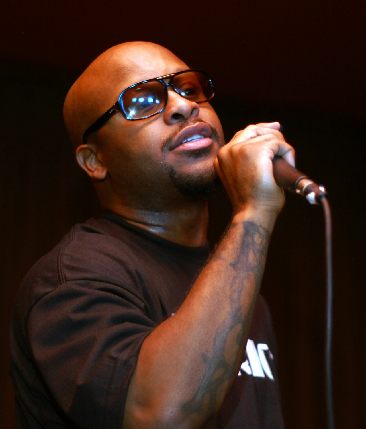 Royce da 5'9""